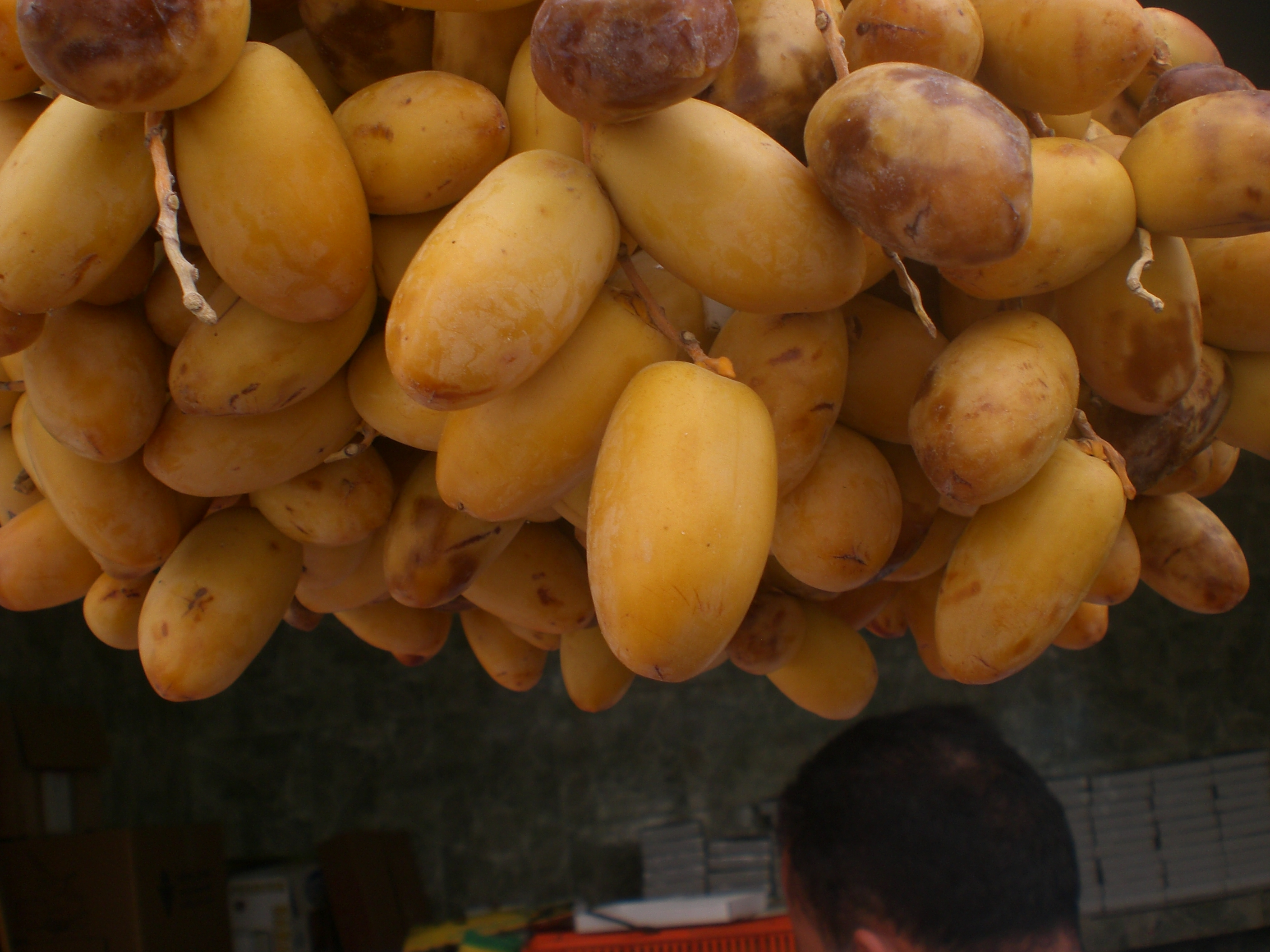 Dates of Tunisia called Arichti